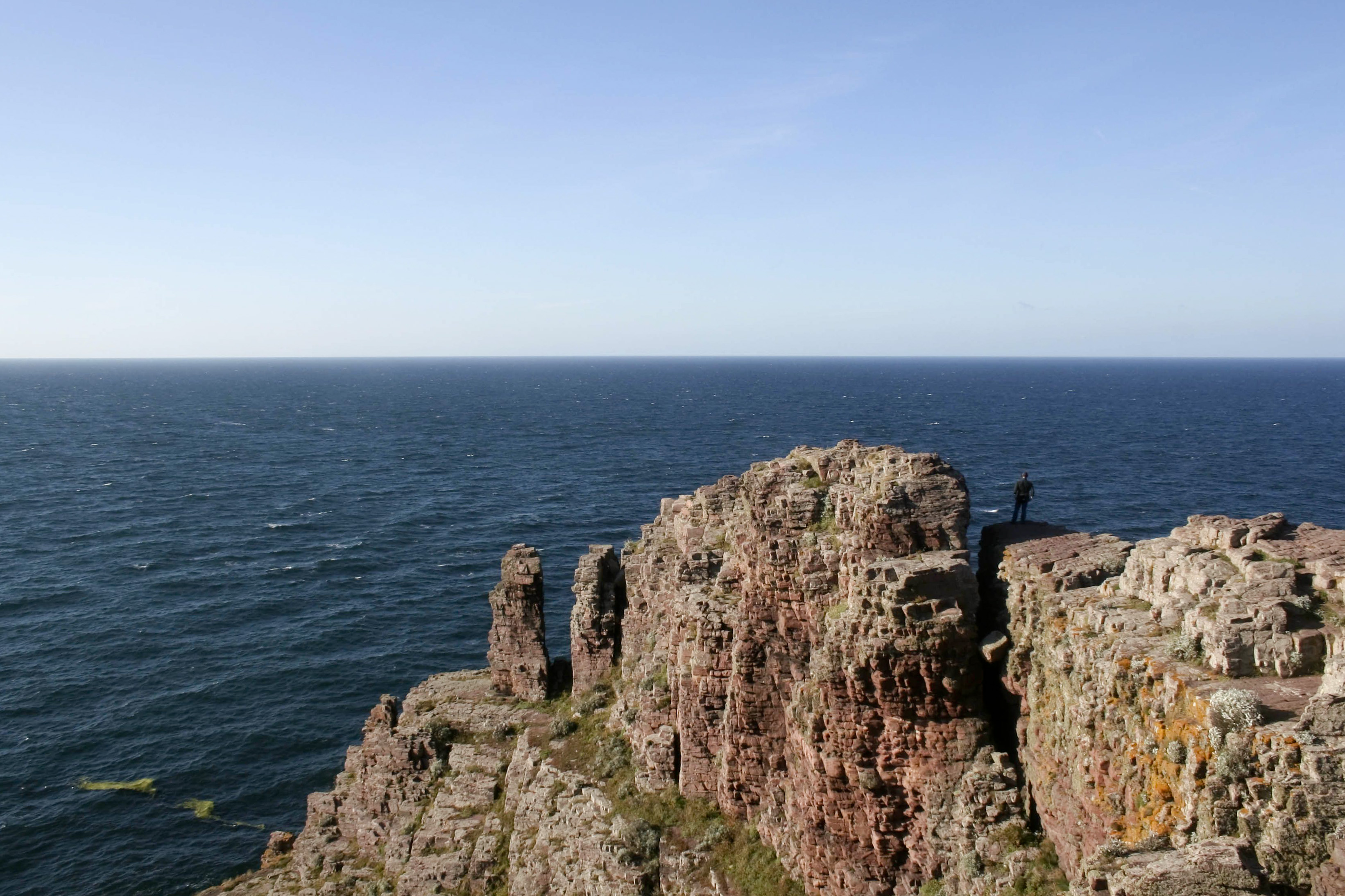 A visit to the peak of Cap Fréhel (France)